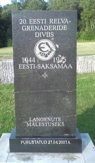 The marker for 20th Waffen Grenadier Division of the SS as part of SS memorial at the Sinimäe, Estonia.